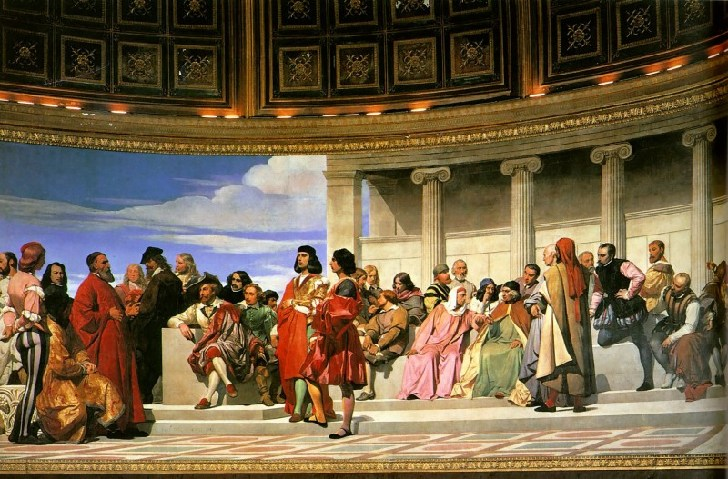 Left portion of "L'Hémicycle des Beaux-arts" by Paul Delaroche. École nationale supérieure des beaux-arts, Paris. Oil and wax on wall.